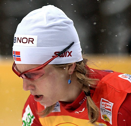 Astrid Uhrenholdt Jacobsen at the Tour de Ski 2010 in Oberhof